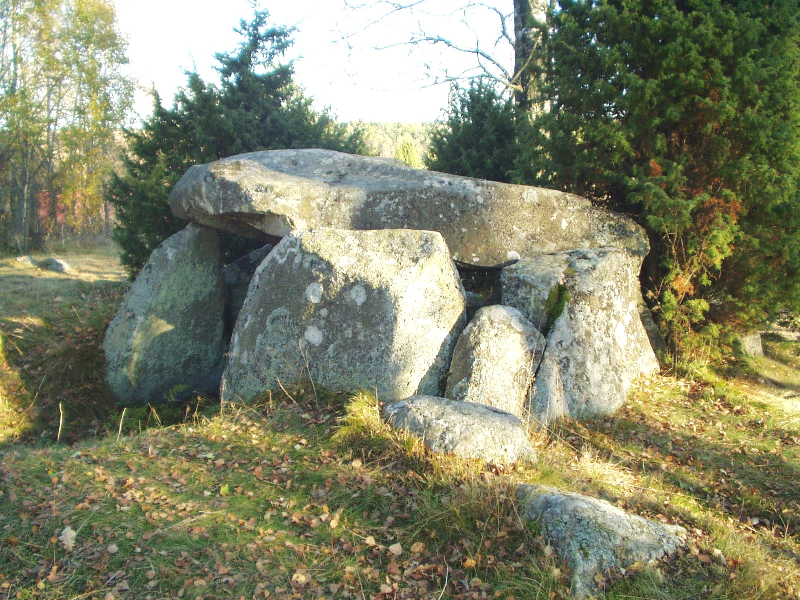 Dolmen at Massleberg, Strömstad